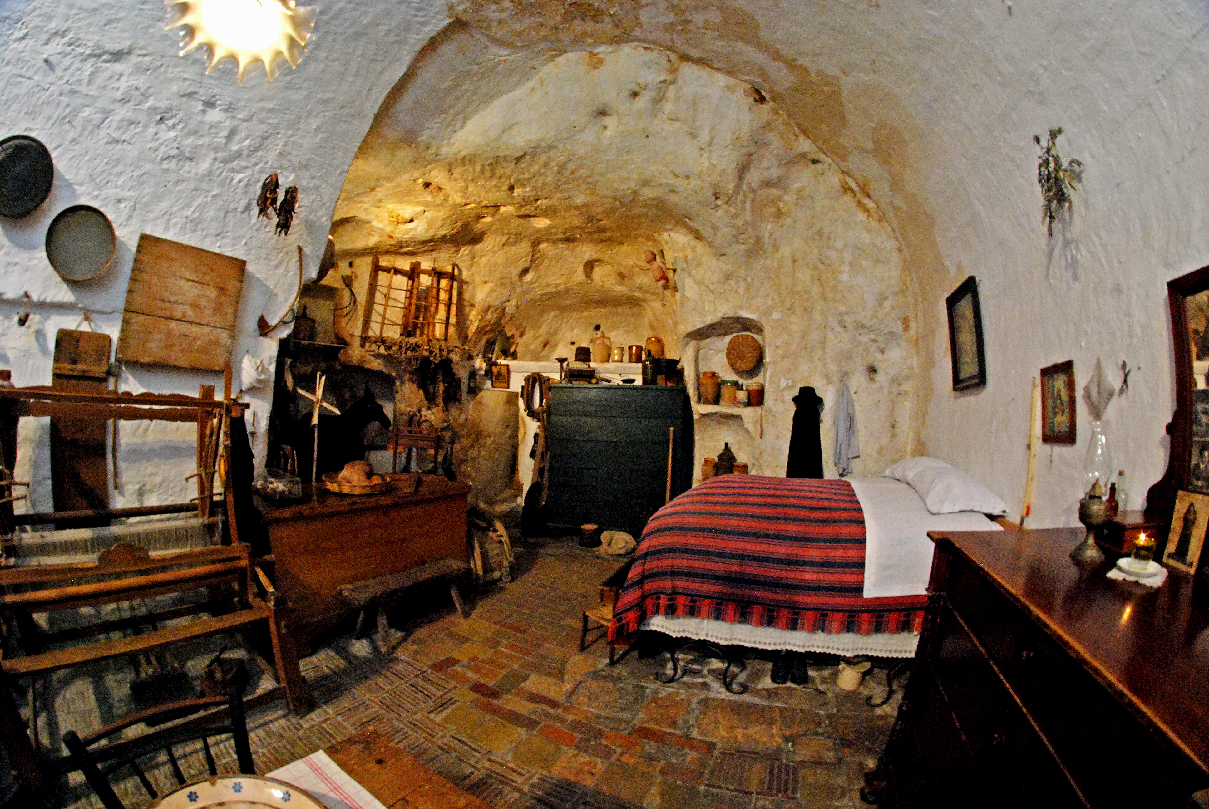 Casa Grotta in Matera.